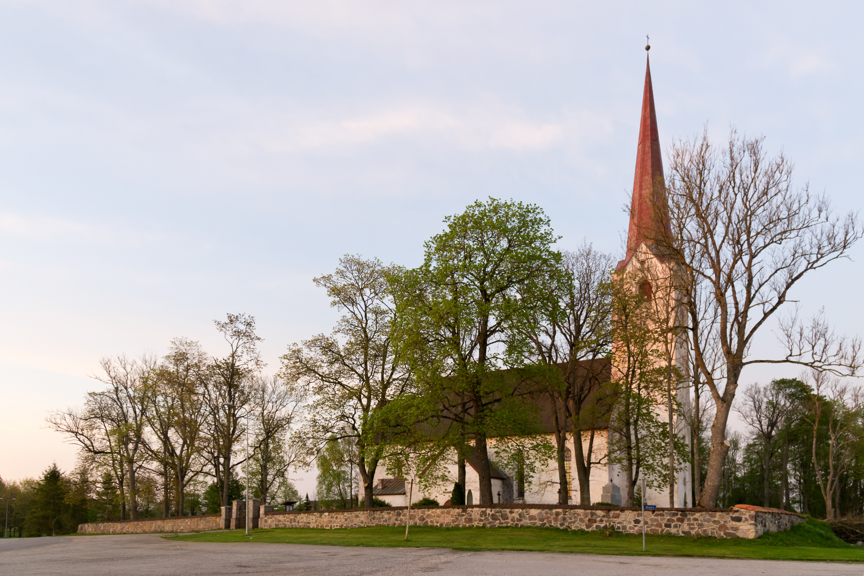 Järva-Peetri St. Peter's church in morning light